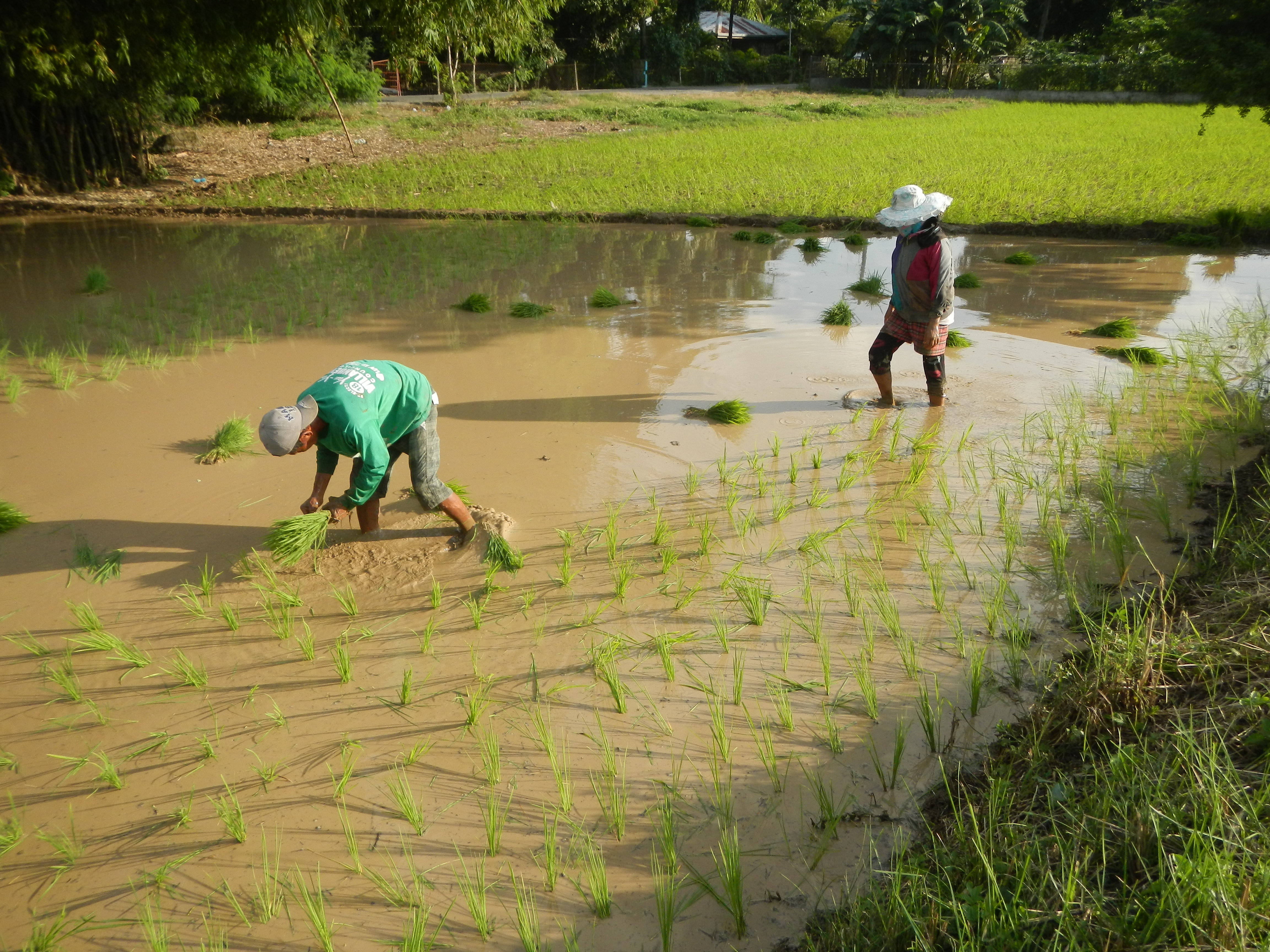 Rice Planting in the Philippines in Barangay Sicsican Matanda, (is beside Lomboy, (is beside San Pascual, which is beside, on the other side of connecting Sicsican Bridge, by Calipahan, and finally to Sicsican Matanda, Talavera, Nueva Ecija from and along the Pan-Philippine Highway, also known as the Maharlika "Nobility/freeman" Highway in Cagayan Valley Road).